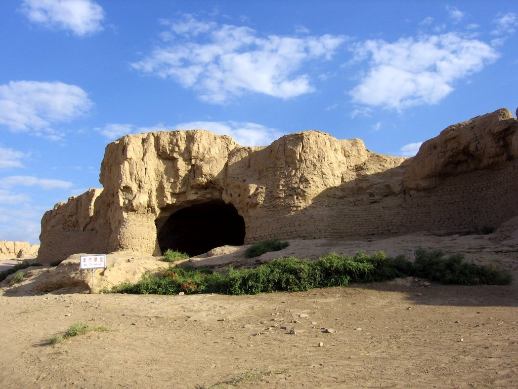 Turfan (Turpan/Tulufan) is an oasis city in the Xinjiang Uygur Autonomous Region of the People's Republic of China. Jiaohe ruins.